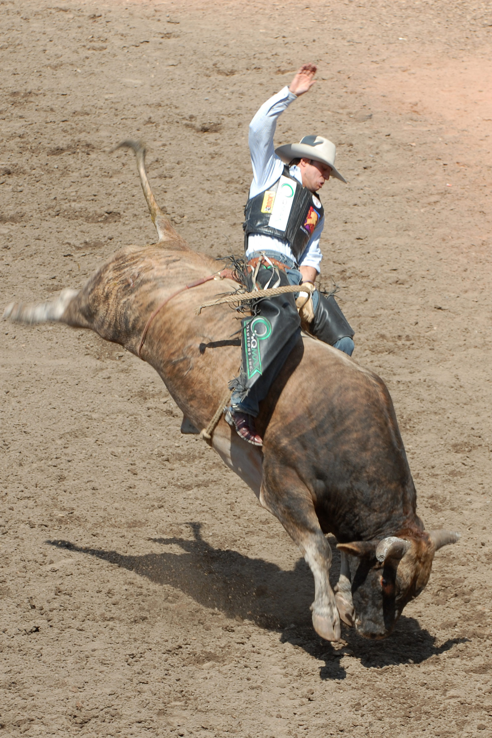 Bull riding at the Calgary Stampede. Photo by Chuck Szmurlo taken July 10, 2007 with a Nikon D200 and a Nikon 70-200 f2.8 lens.